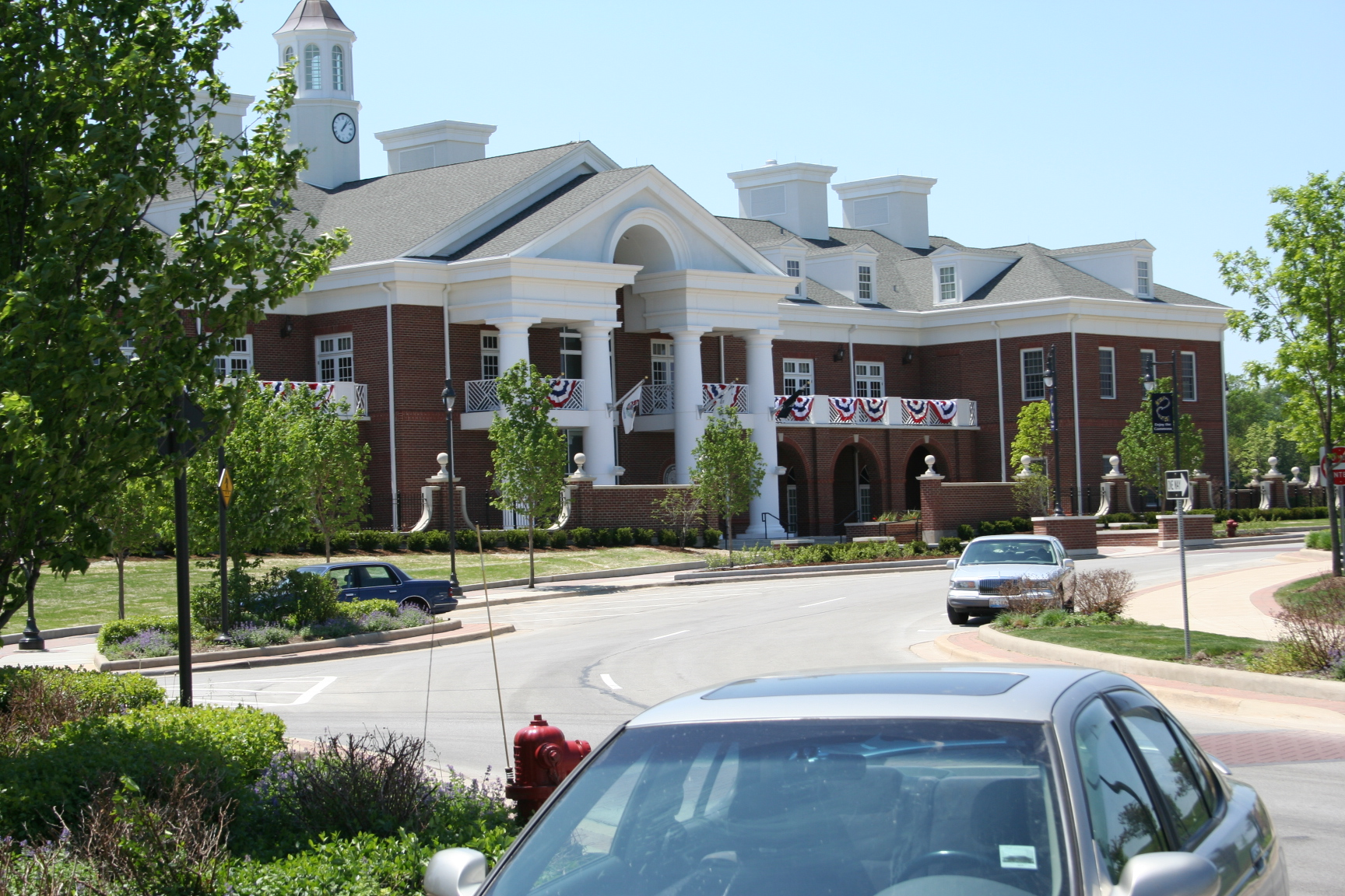 Front of New Lenox Village Hall as seen from Library sidewalk.